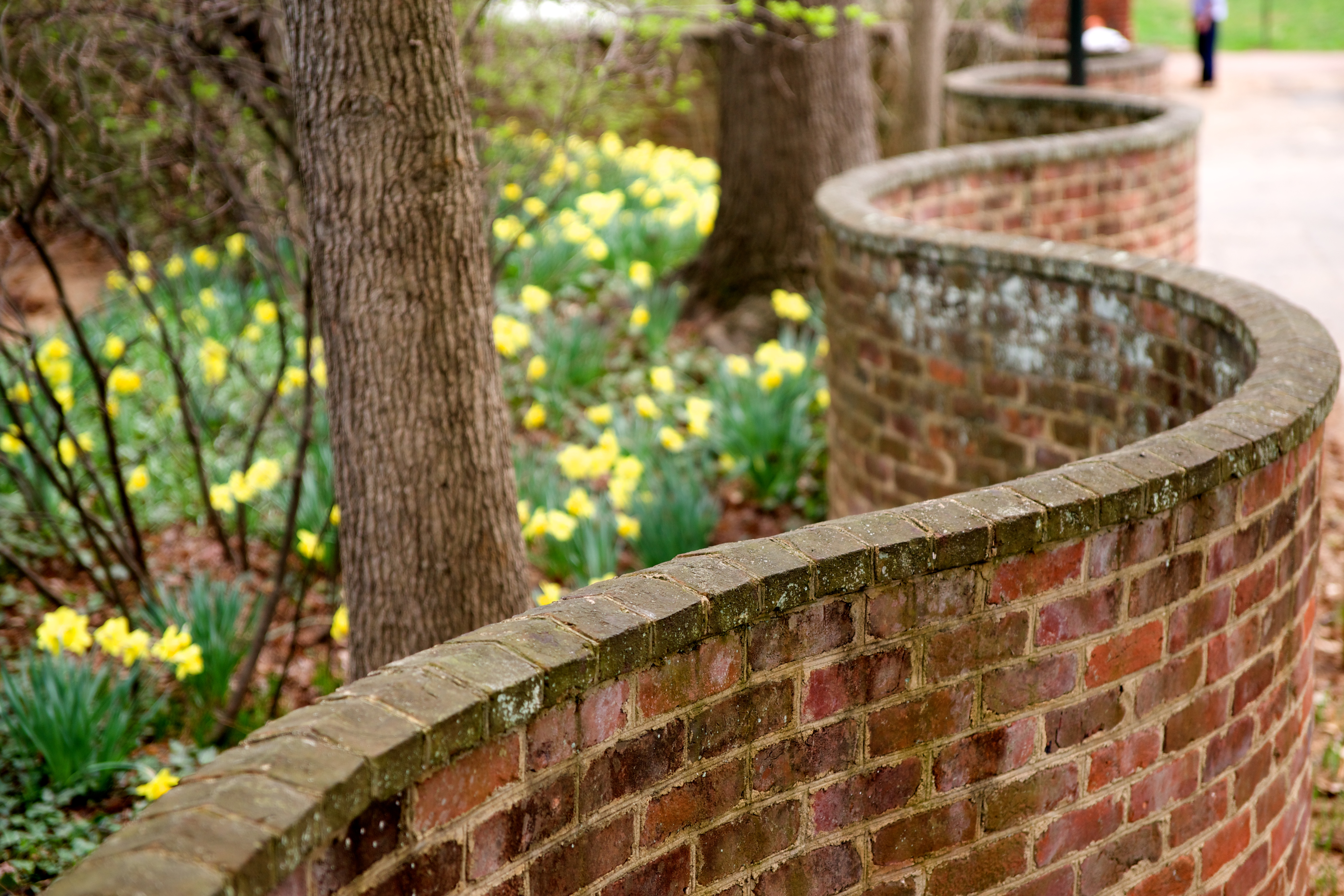 Serpentine wall in the academical village at the University of Virginia